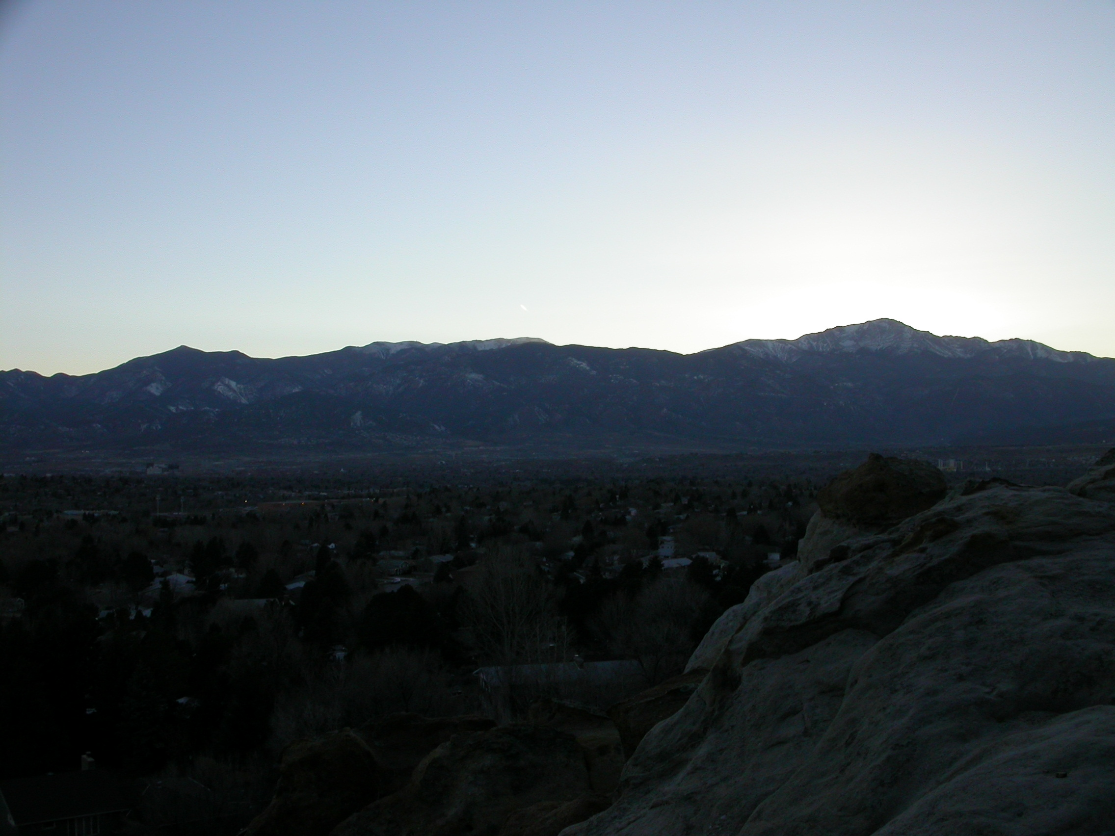 View of Pikes Peak from Palmer Park